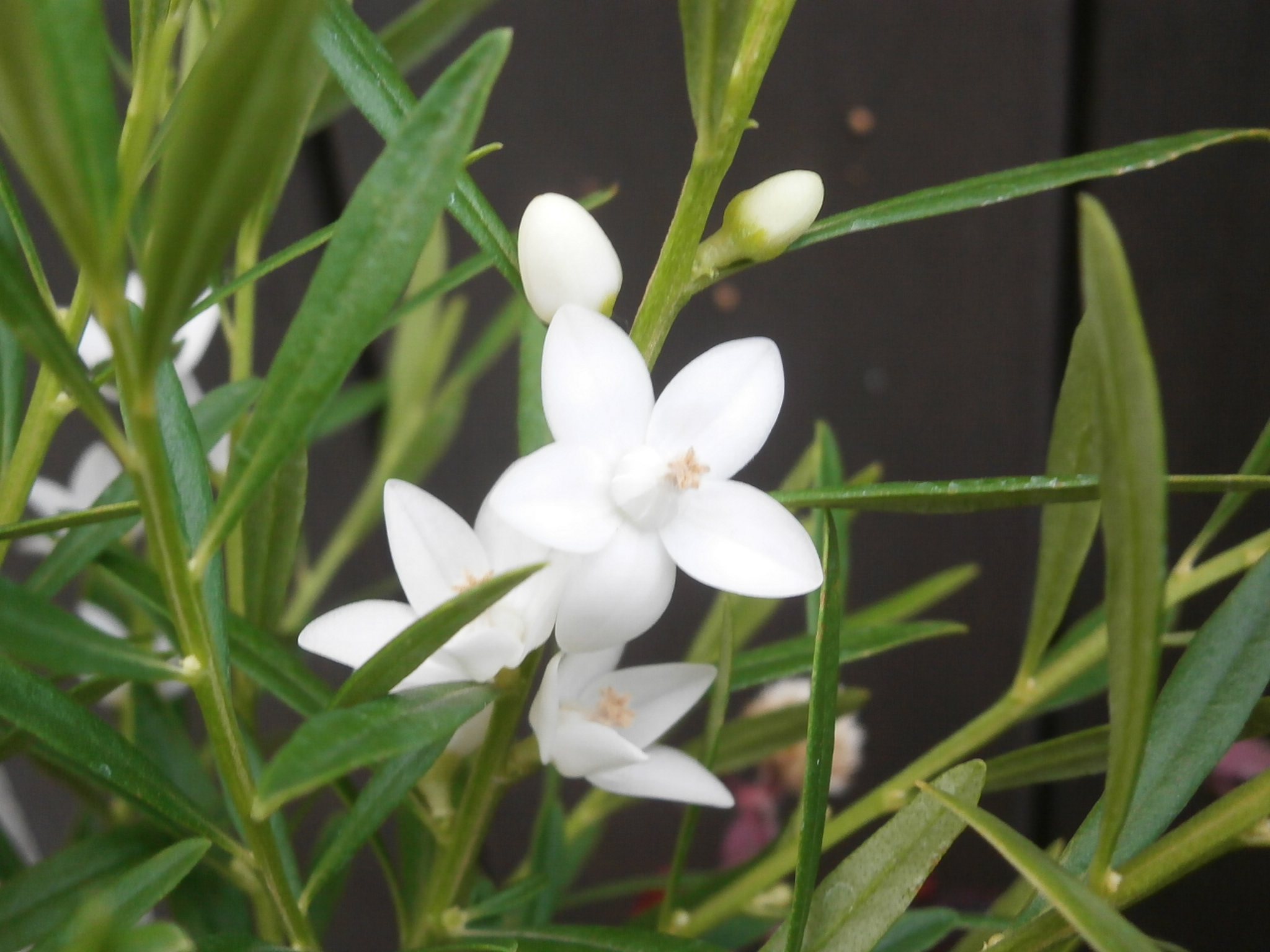 Crowea exalata